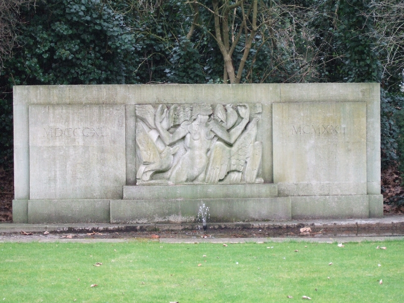 A close up of Epstein's relief of Rima, The lettering on each side is by Eric Gill.